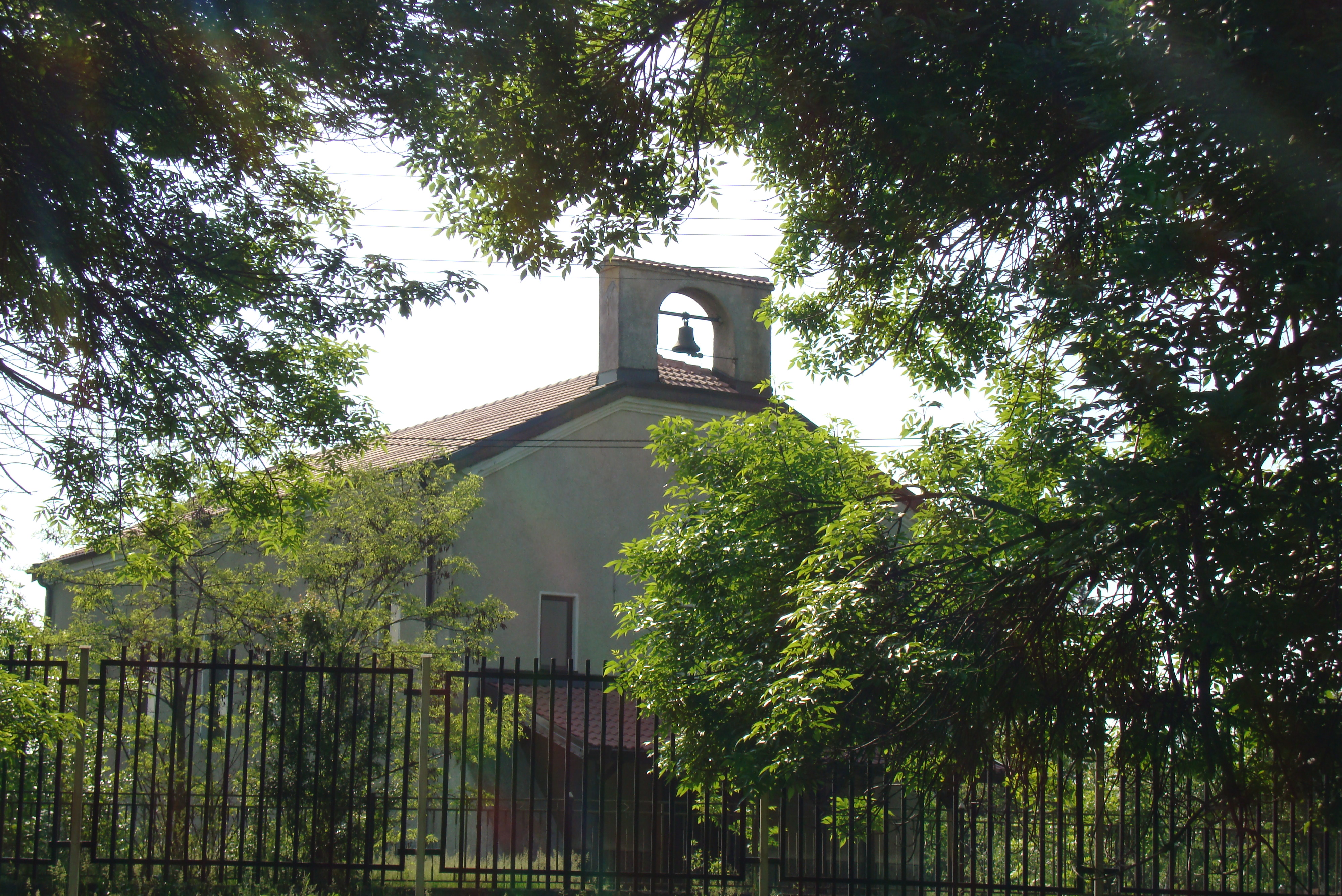 "St. George" church